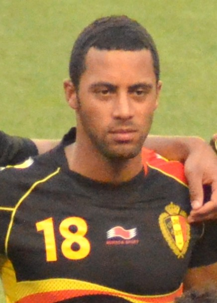 Taken at FirstEnergy Stadium Home of the Cleveland Browns